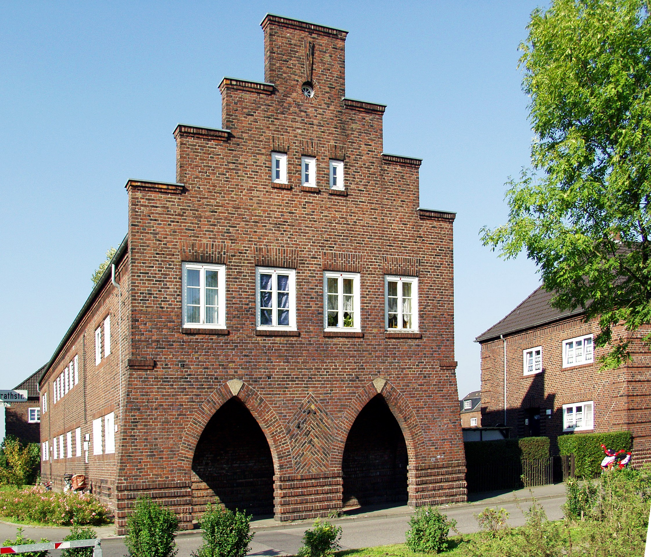 Mining colony "Repelen" in Moers, Germany